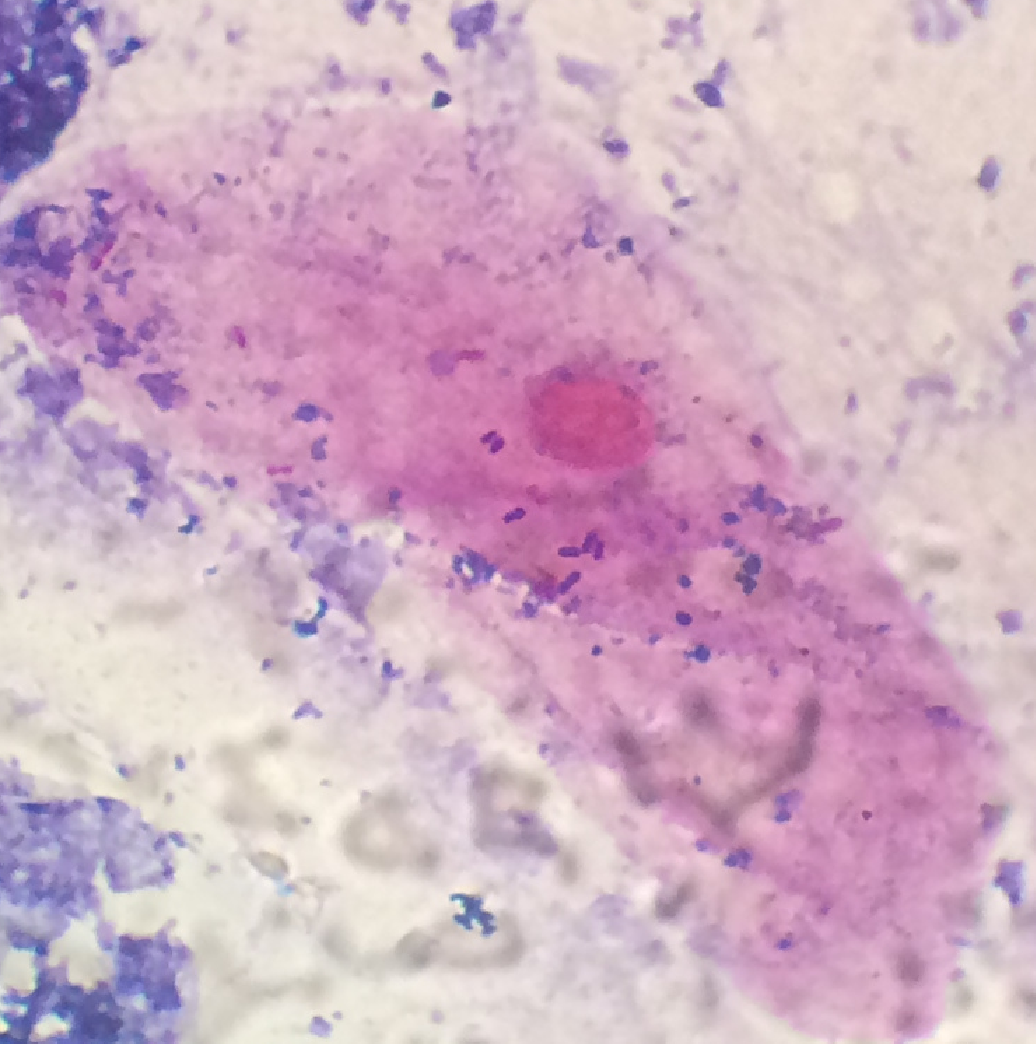 Diplococcus Bacteria in throat sample